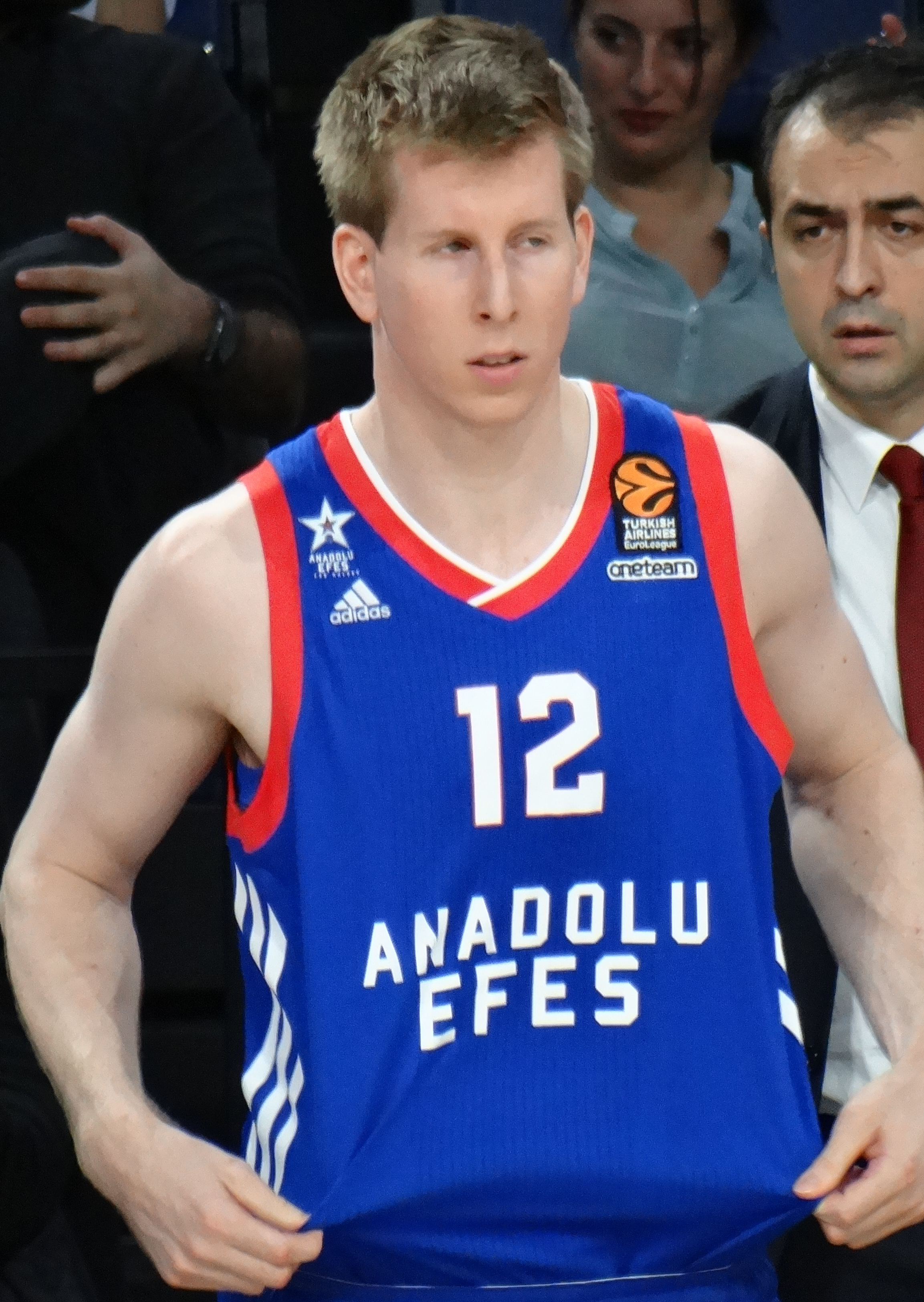 Brock Motum 12 - Anadolu Efes S.K. 20171215